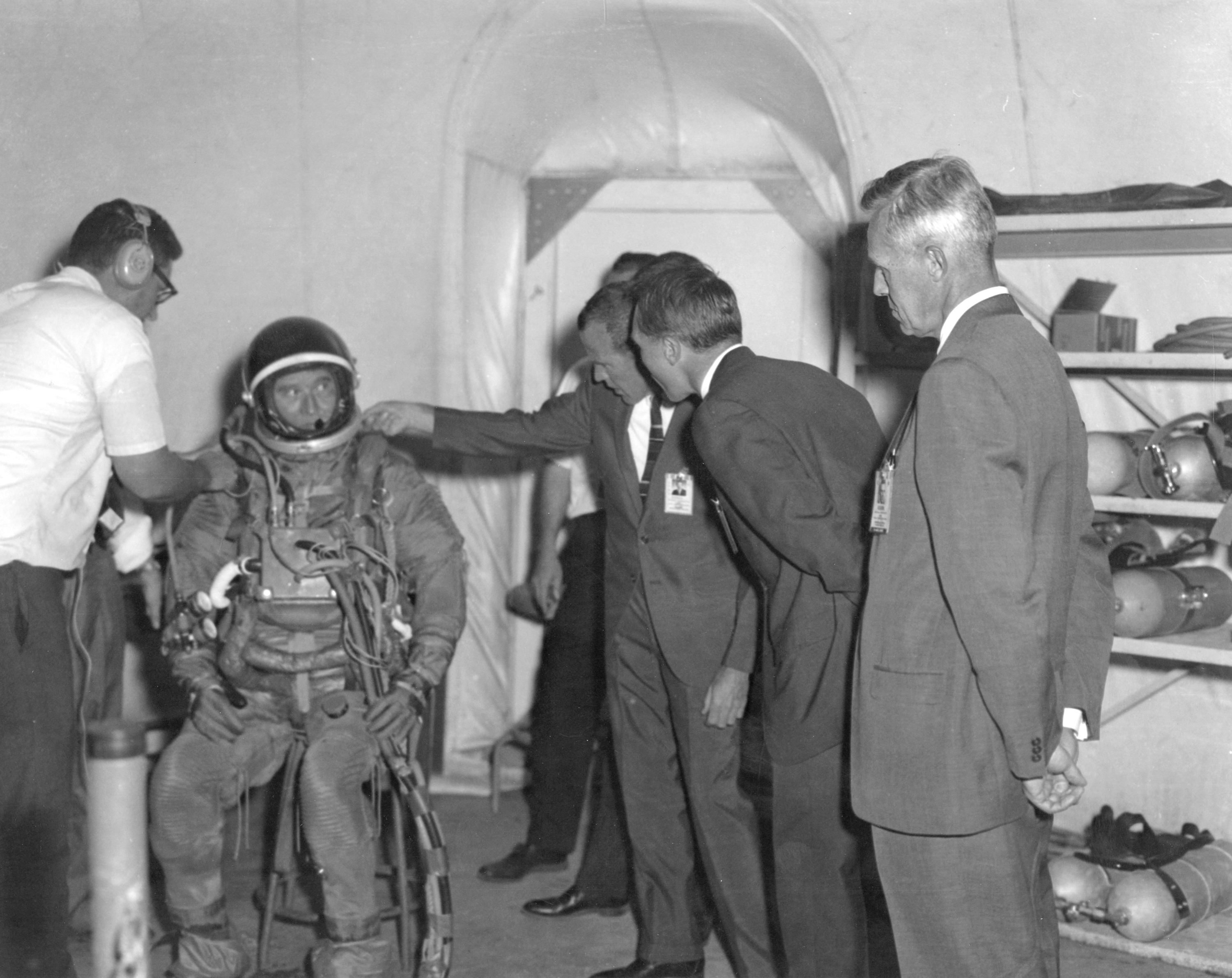 Astronaut L. Gordon Cooper checks the neck ring of a space suit worn by Marshall Space Flight Center (MSFC) Director, Dr. von Braun before he submerges into the water of the MSFC Neutral Buoyancy Simulator (NBS). Wearing a pressurized suit and weighted to a neutrally buoyant condition, Dr. von Braun was able to perform tasks underwater which simulated weightless conditions found in space.